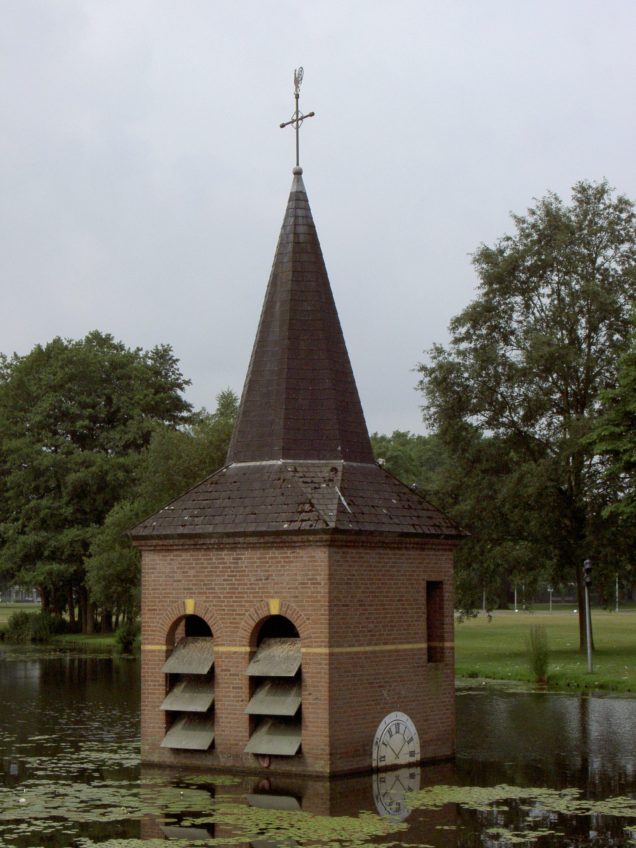 The 'Little tower of Drienerlo', made by Wim T. Schippers, it depicts the 'sunken tower of Drienerlo', which gives the impression that a church stands on the bottom of this pond.